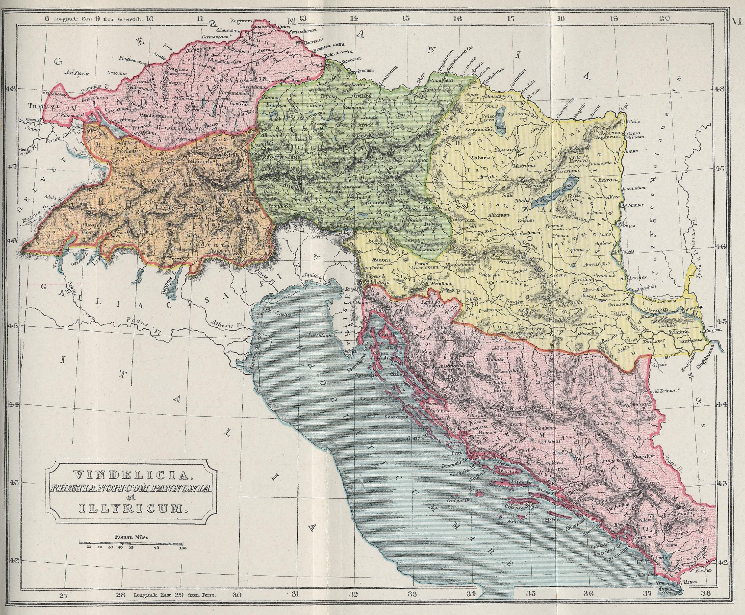 The Atlas of Ancient and Classical Geography by Samuel Butler